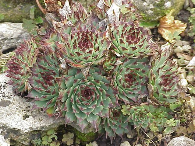 a group of sempervivium calcareum growing